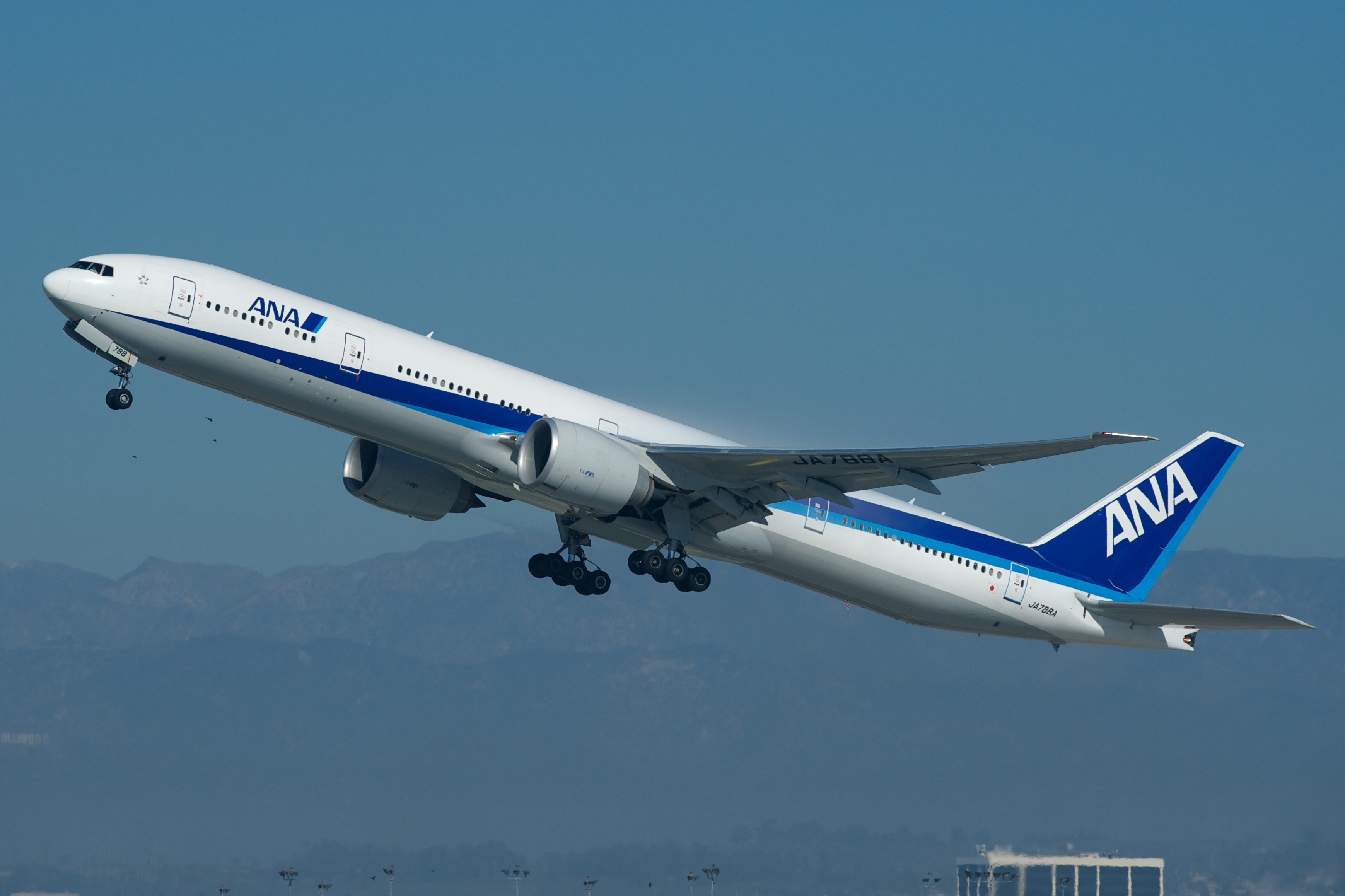 Rocketing off the runway, LAX south complex